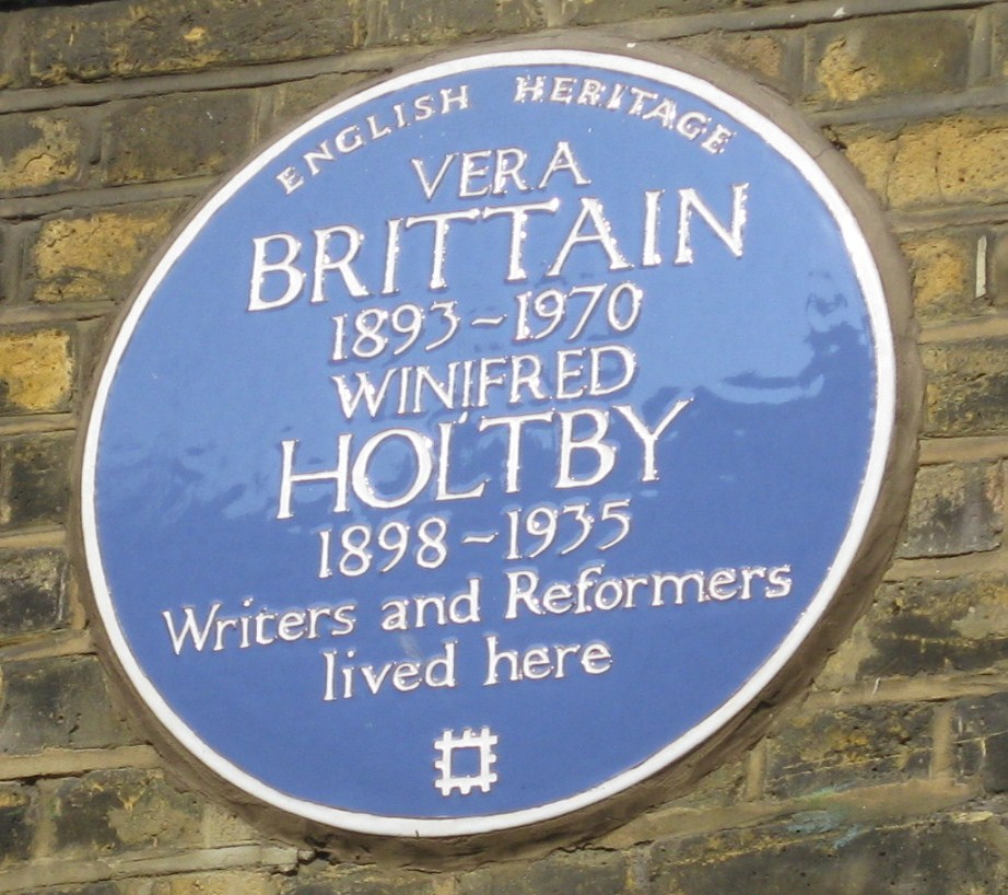 Blue plaque for Vera Brittain and Winifred Holtby, at 52 Doughty Street, Holborn, London